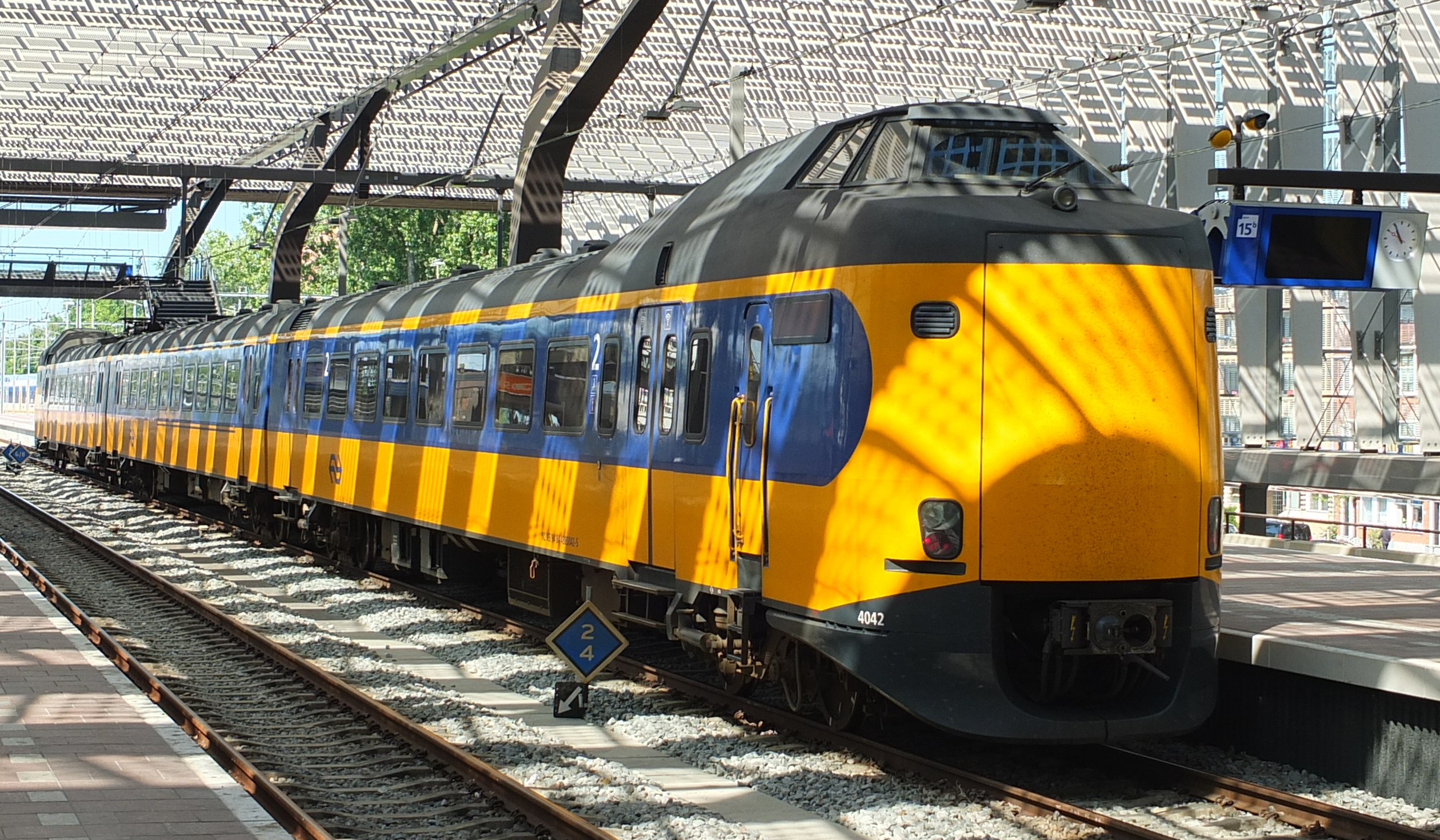 Train 4042 of type ICM (intercity trains) of the Dutch railways (NS) in Rotterdam Centraal.